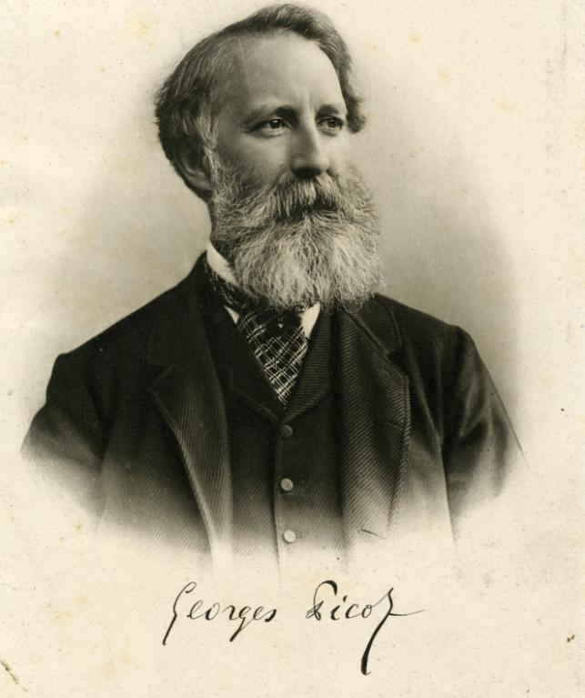 Book by Pierre de Coubertin